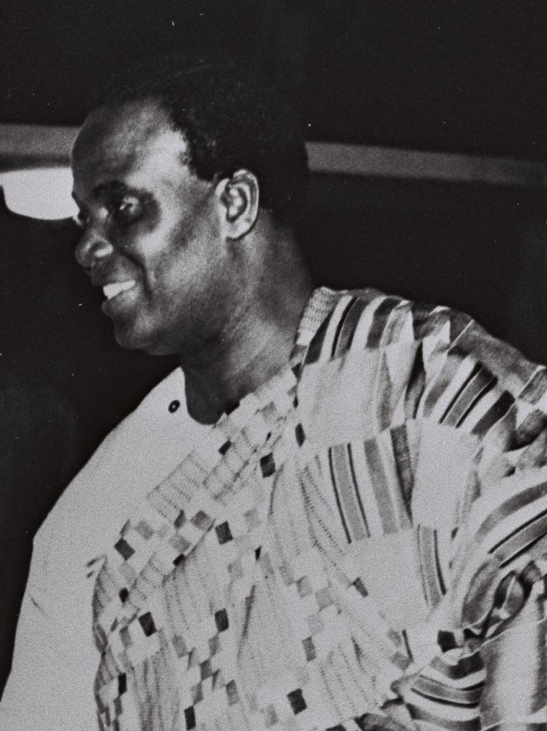 Kojo Botsio, 1964